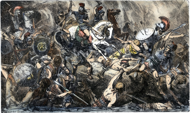 PELOPONNESIAN WARS. Destruction of the Athenian Army in Sicily during the Peleponnesian War, 413 B.C.: wood engraving, 19th century.